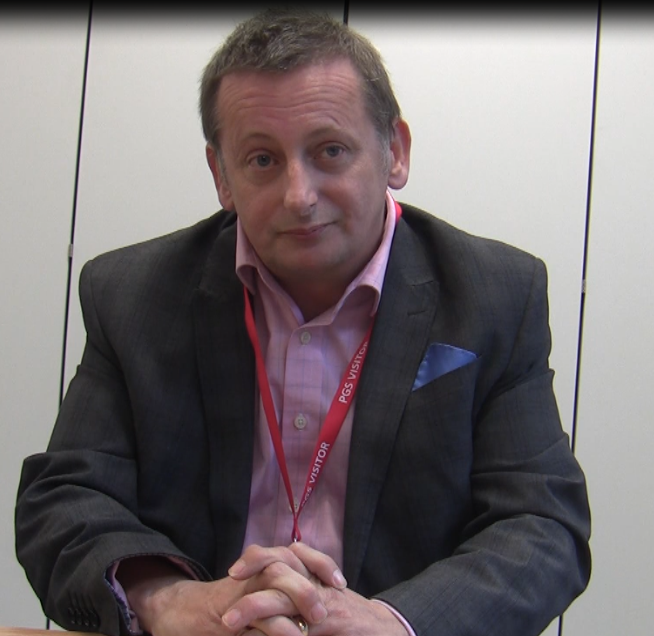 Picture of Raymond Finch MEP taken as a still from a video shot by myself